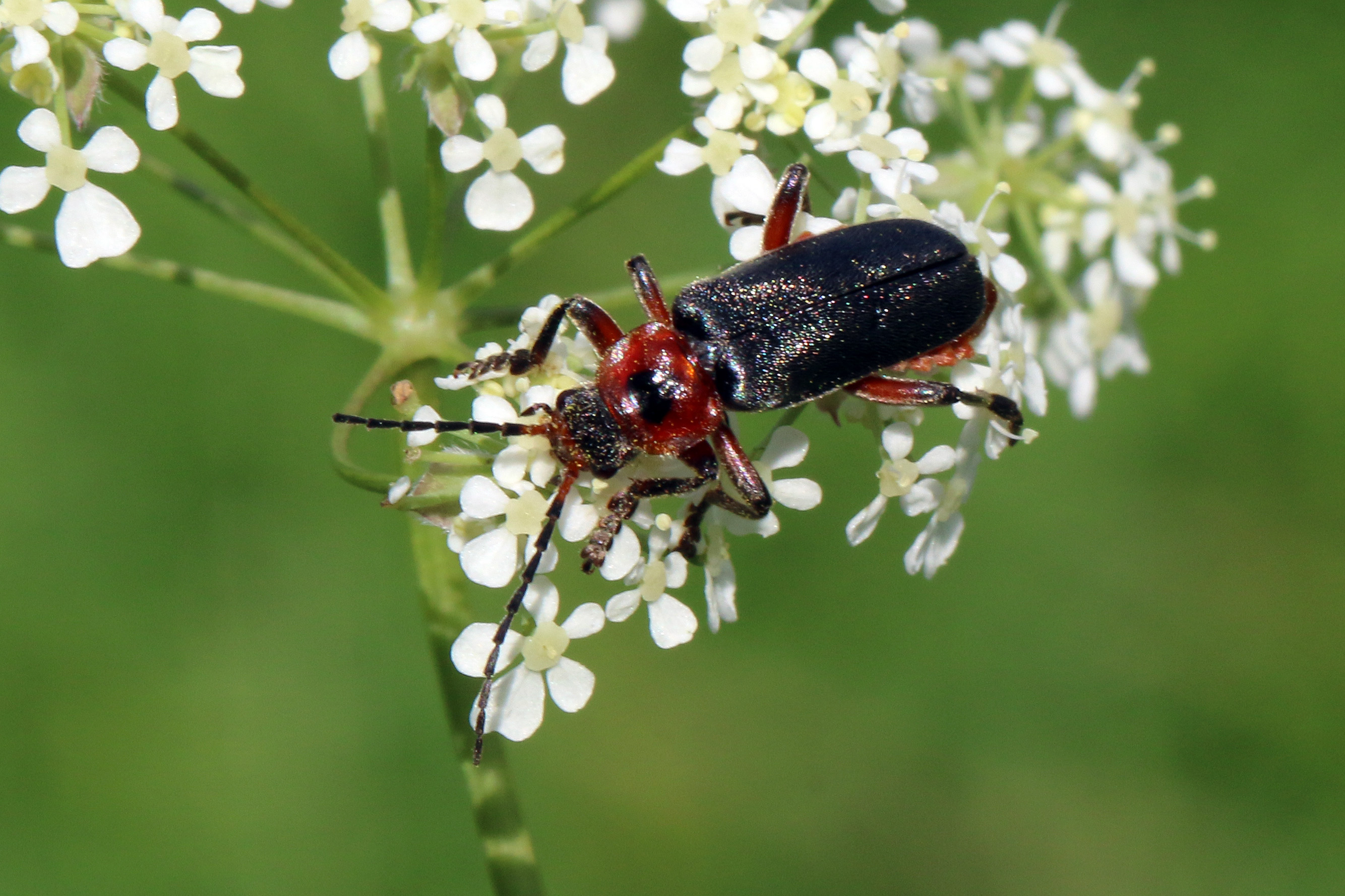 Soldier beetle (Cantharis rustica)